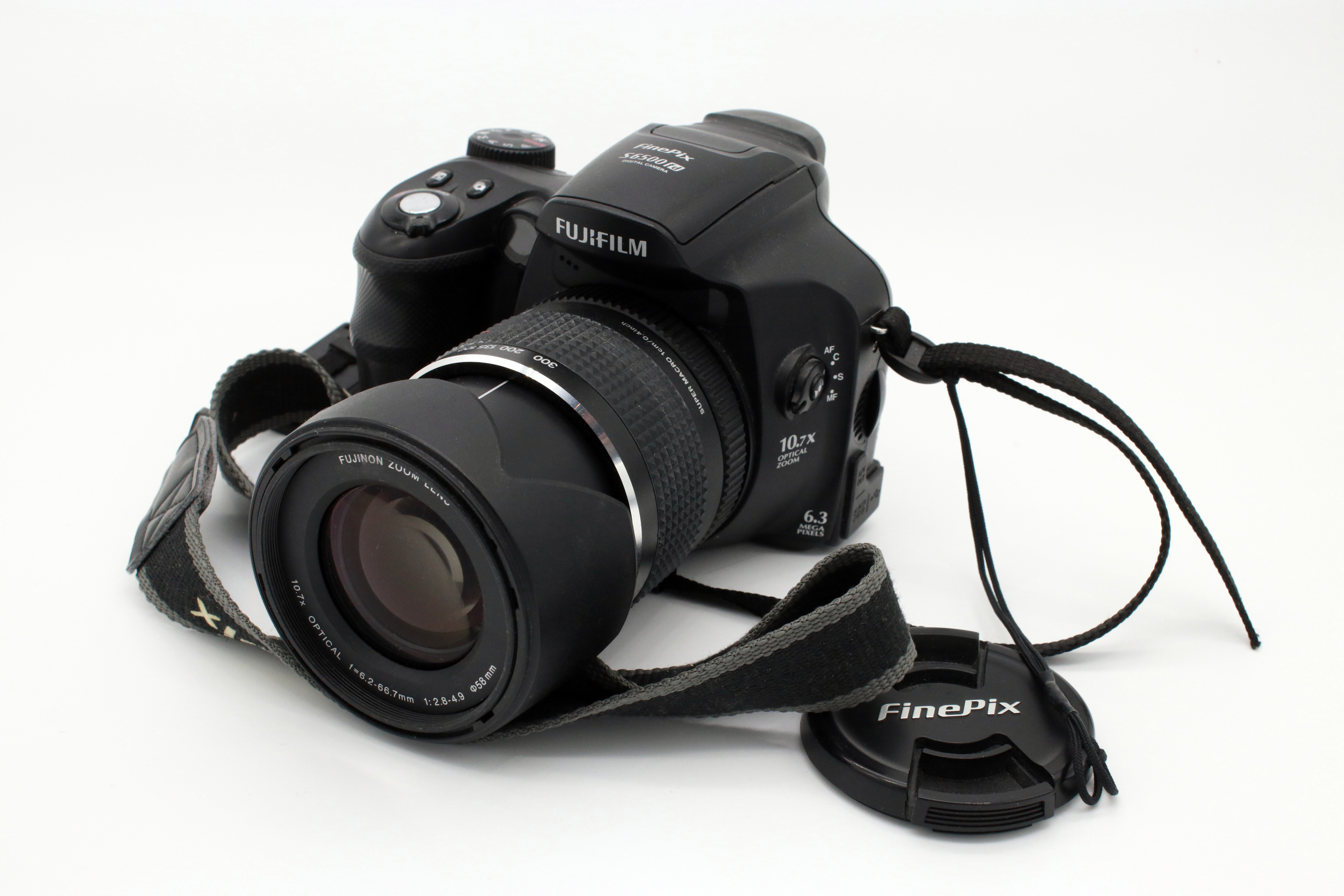 Fujifilm FinePix S6500fd camera with extended lense